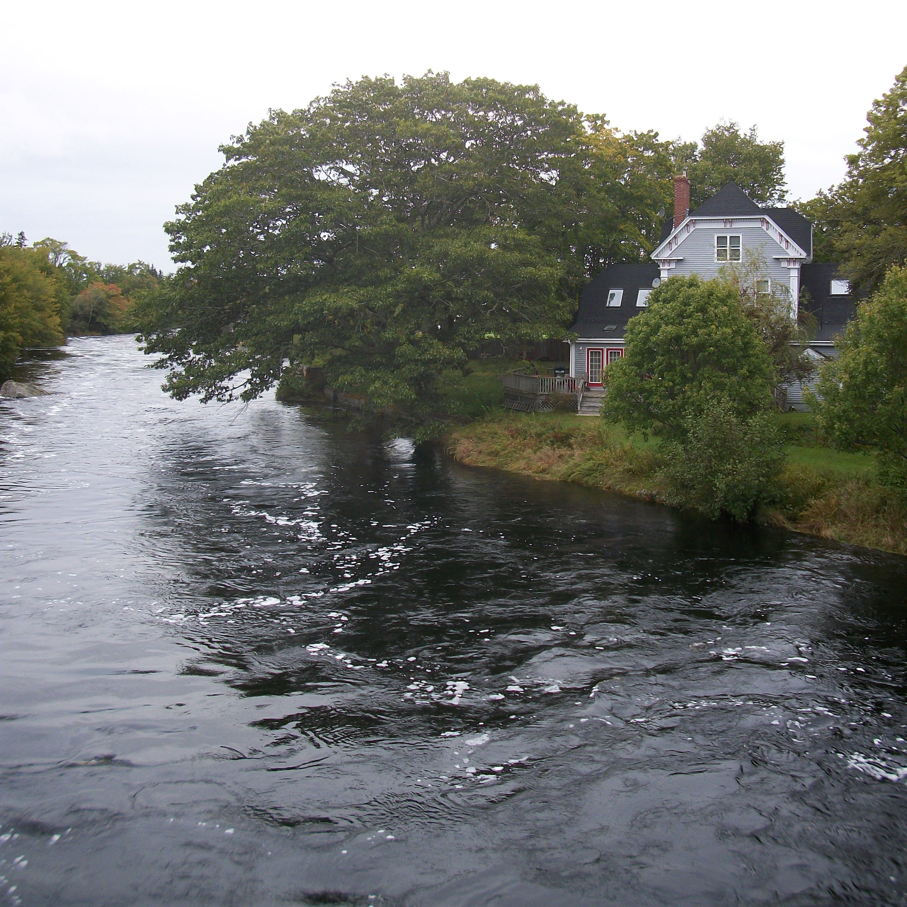 Clyde River in full autumn flow, Clyde River, Shelburne County, Nova Scotia